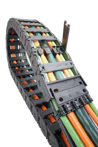 An example of a standard type chain with cables running through it.